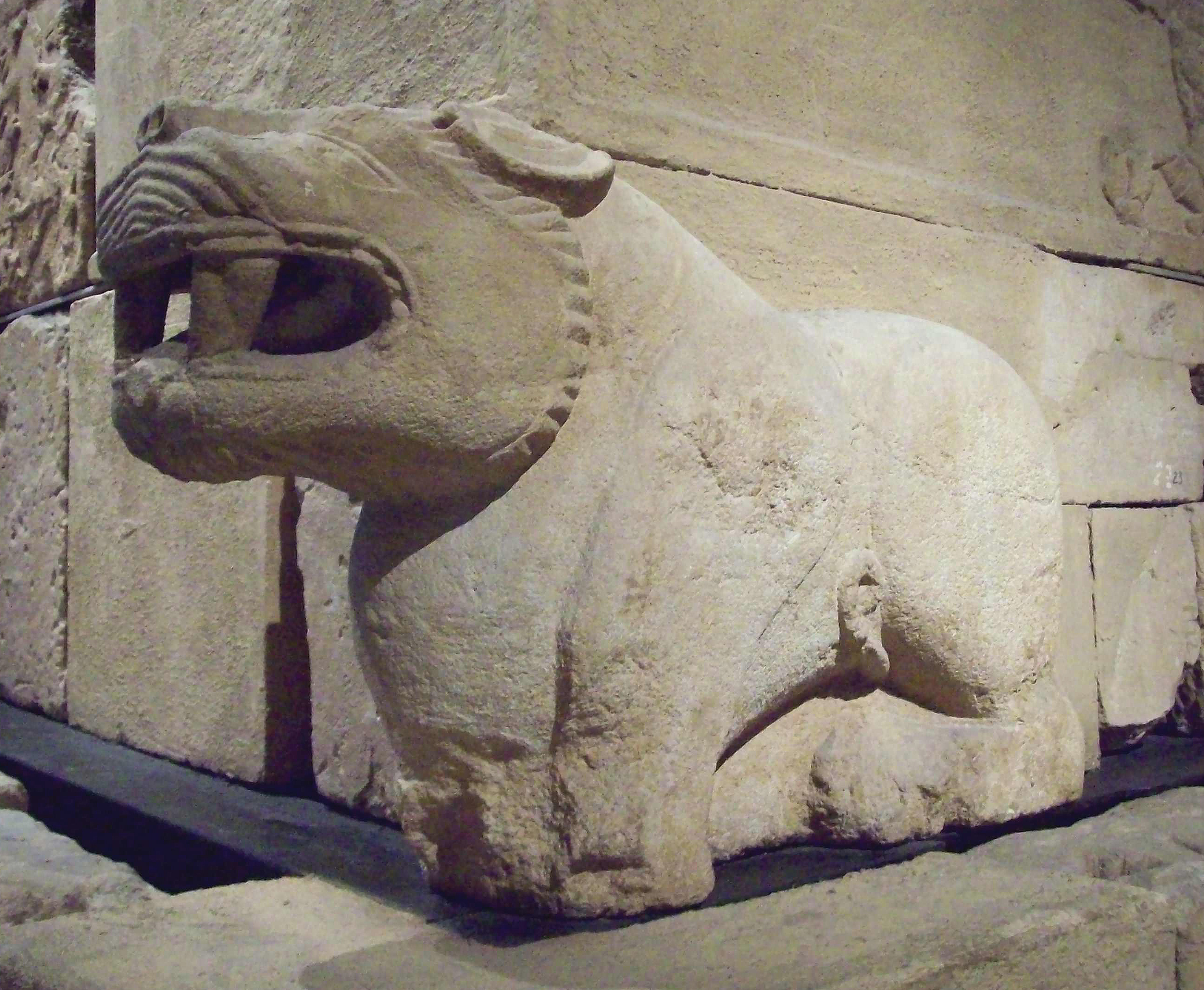 Detail of the so-called Monument of Pozo Moro. Sandstone Iberian mausoleum, built at the end of the 6th century BC in Chinchilla de Monte-Aragón (Province of Albacete, Castile-La Mancha, Spain).